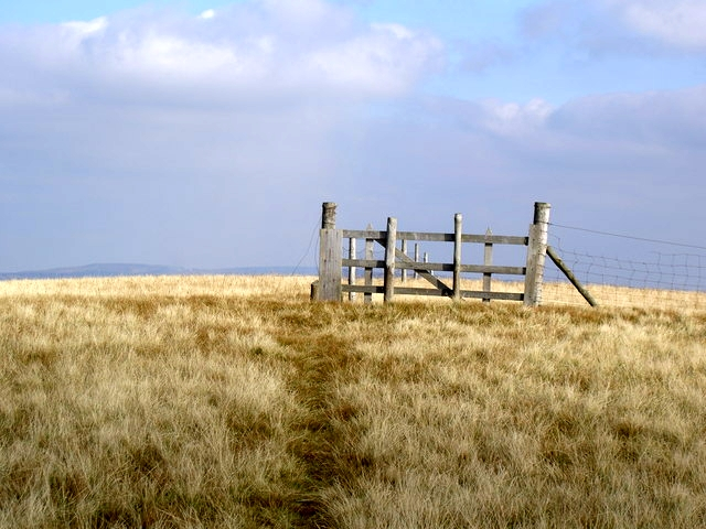 Photo of boundary fence near the summit of Hugh Seat, Mallerstang, Cumbria. (Taken by Ian Grieg).